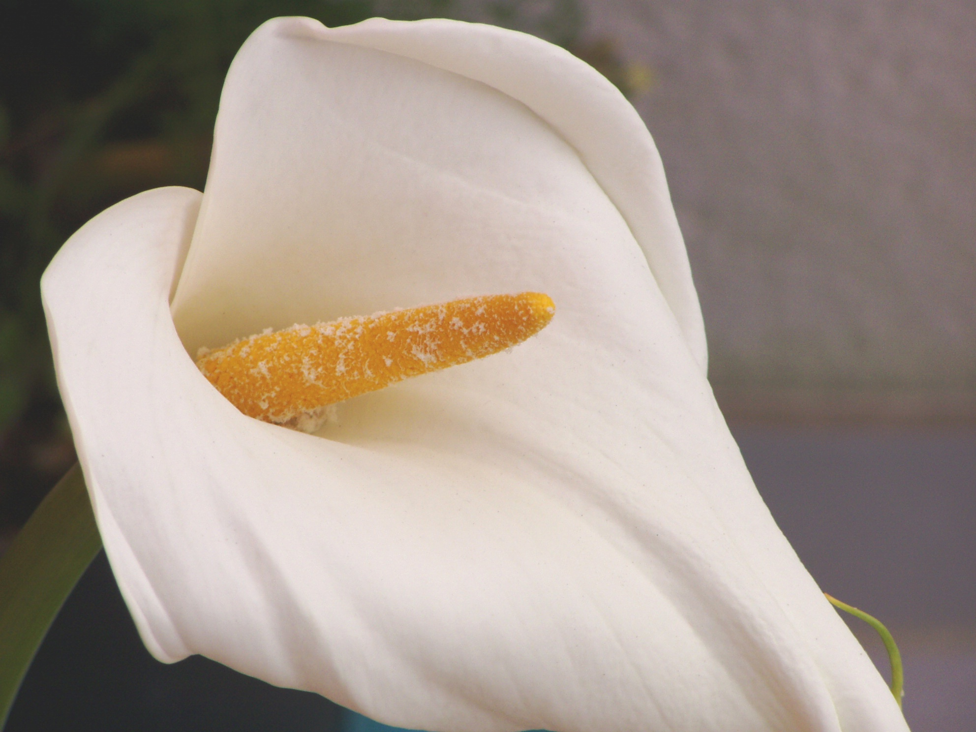 Zantedeschia aethiopica, a native of South Africa where it forms extensive stands in marshes. A common ornamental in temperate climates around the world.